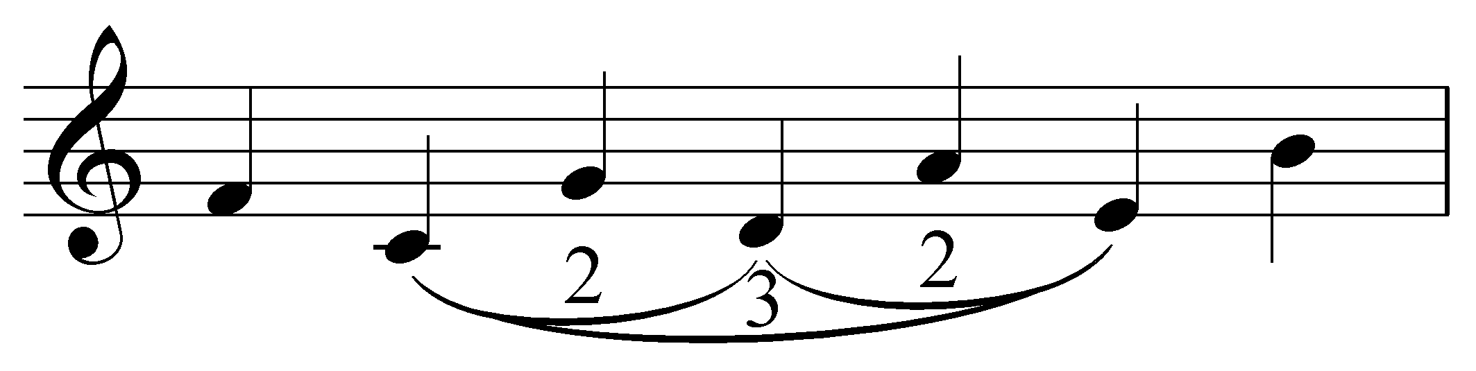 Diatonic scale written as a circle of fifths to illustrate structure implies multiplicity.